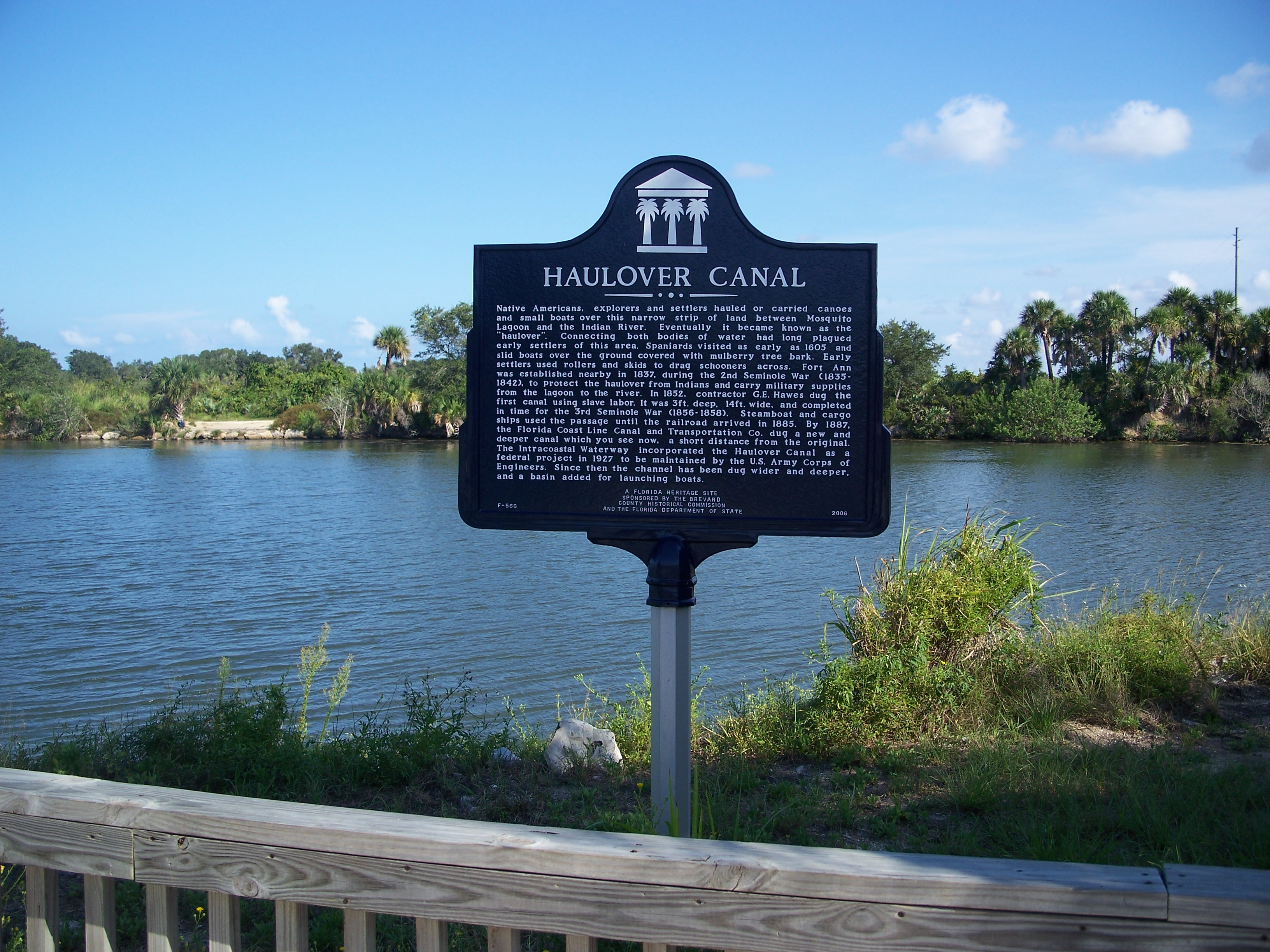 Historical marker by the observation deck at the Old Haulover Canal in Merritt Island, Florida